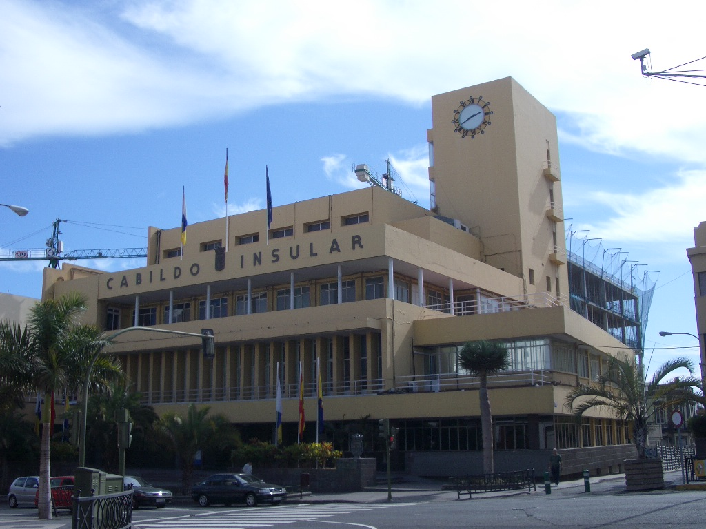 Cabildo de Gran Canaria Palace & Head Offices in Las Palmas de Gran Canaria, Canary Islands (Spain).